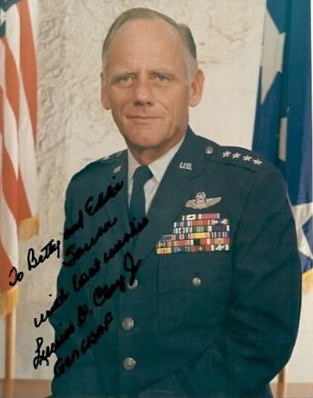 GEN Lucius D. Clay, Jr., USAF